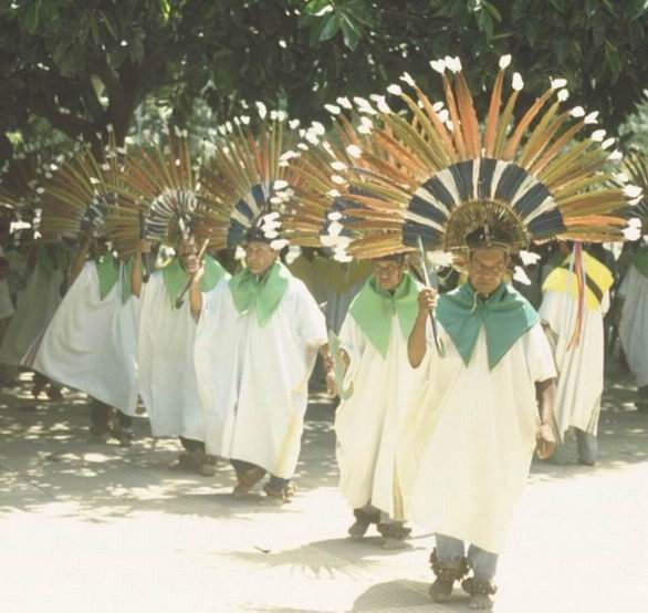 indains in trinidad (wich trinidad ?) created by he:משתמש:בן הטבע